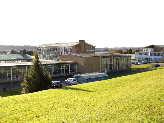 Cantonian High School buildings, Llandaff, Cardiff, Wales